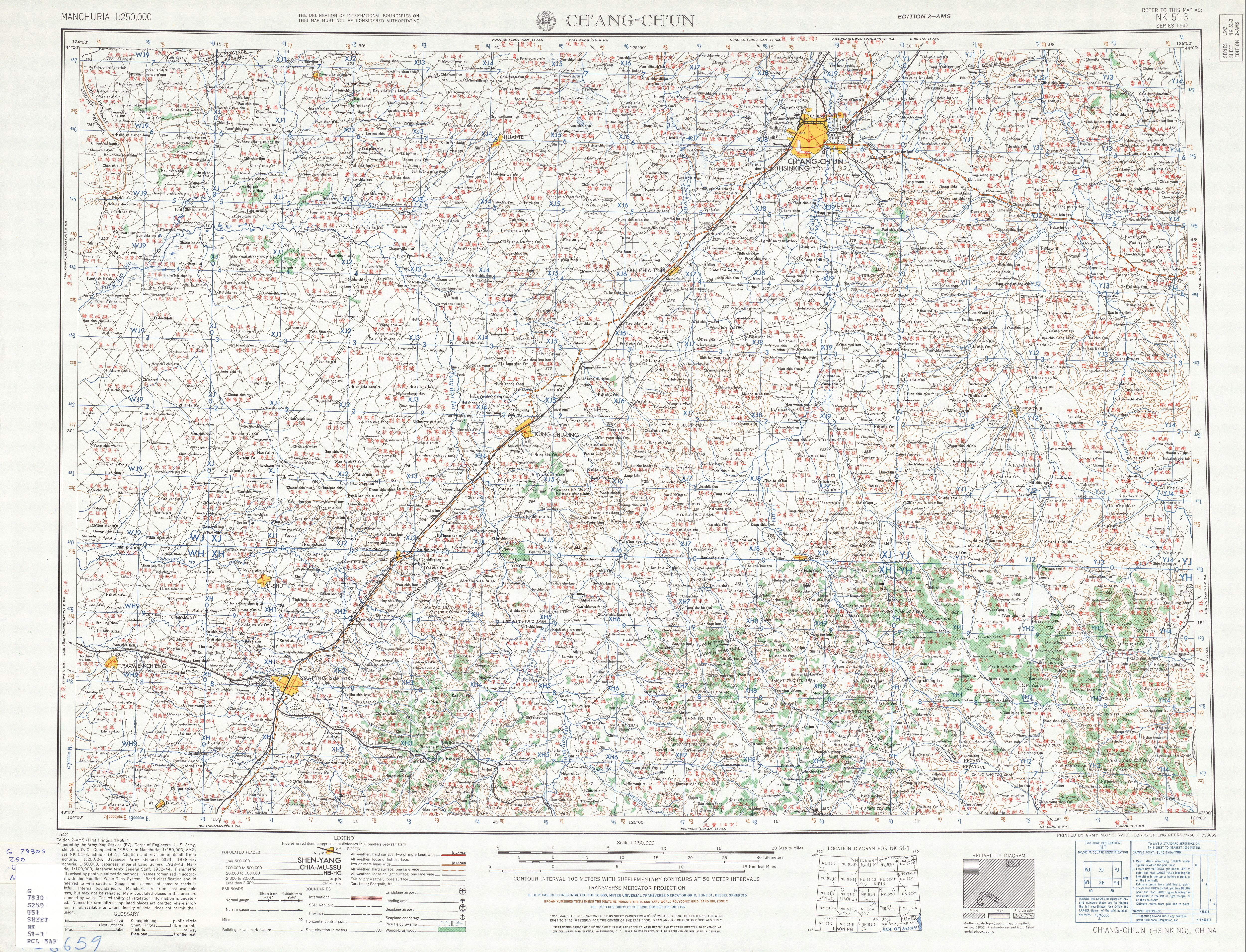 Manchuria AMS Topographic Maps